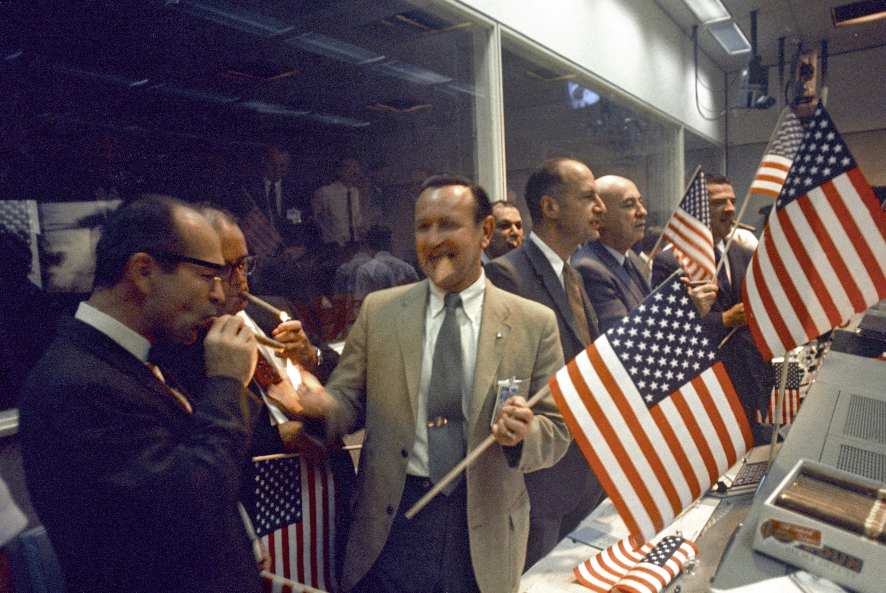 NASA and Manned Spacecraft Center (MSC) officials join the flight controllers in celebrating the conclusion of the Apollo 11 mission. From left foreground Dr. Maxime A. Faget, MSC Director of Engineering and Development; George S. Trimble, MSC Deputy Director; Dr. Christopher C. Kraft Jr., MSC Director fo Flight Operations; Julian Scheer (in back), Assistant Adminstrator, Office of Public Affairs, NASA HQ.; George M. Low, Manager, Apollo Spacecraft Program, MSC; Dr. Robert R. Gilruth, MSC Director; and Charles W. Mathews, Deputy Associate Administrator, Office of Manned Space Flight, NASA HQ.